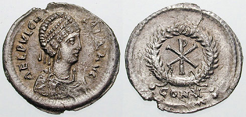 Aelia Pulcheria, sister of Theodosius II and wife of Marcian. Died 453. AR Double Reduced Argenteus or 'Light Miliarense' (3.72 gm). Struck circa 420-422. Constantinople mint. AEL PVLCH-ERIA AVG, diademed, draped and cuirassed bust right, wearing necklace and earring Chi-rho within wreath; CON*. RIC X -; MIRB -; RSC -. Unique and unpublished. For a parallel gold issue see RIC 224 and MIRB 43 (Semissis). Coin from CNG coins, through Wildwinds. Used with permission.